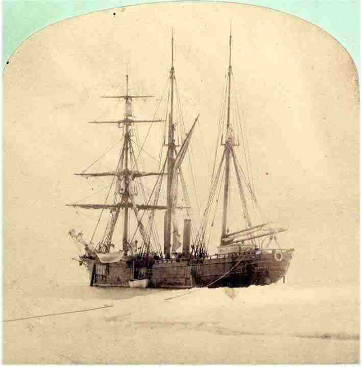 The ship is the Tegetthoff, named for the Austrian Admiral Wilhelm von Tegetthoff. The ship was built by Teklenborg & Beurmann in Bremerhaven. It was a three-masted schooner of 220 tons, 38.34 m long, with a 100 hp (75 kW) steam engine.